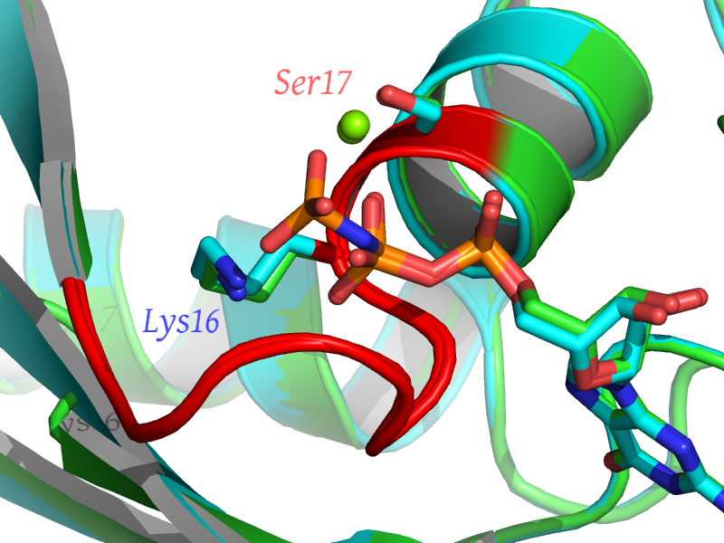 Alignment of the mutant H-Ras A59A in complex with GppNHp and GDP, I created the picture myself by using Pymol and the pdb files 1lf0 and 1lf5 to visualize the P-loop of Ras, feel free to use it.